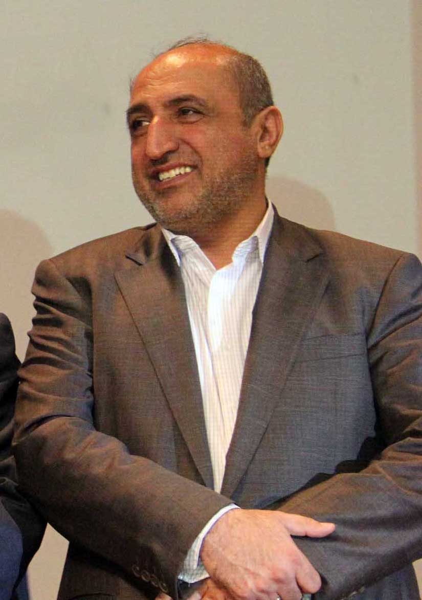 Isa Farhadi, former provincial governer of Alborz province.